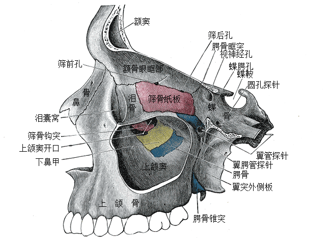 Medial wall of left orbit.